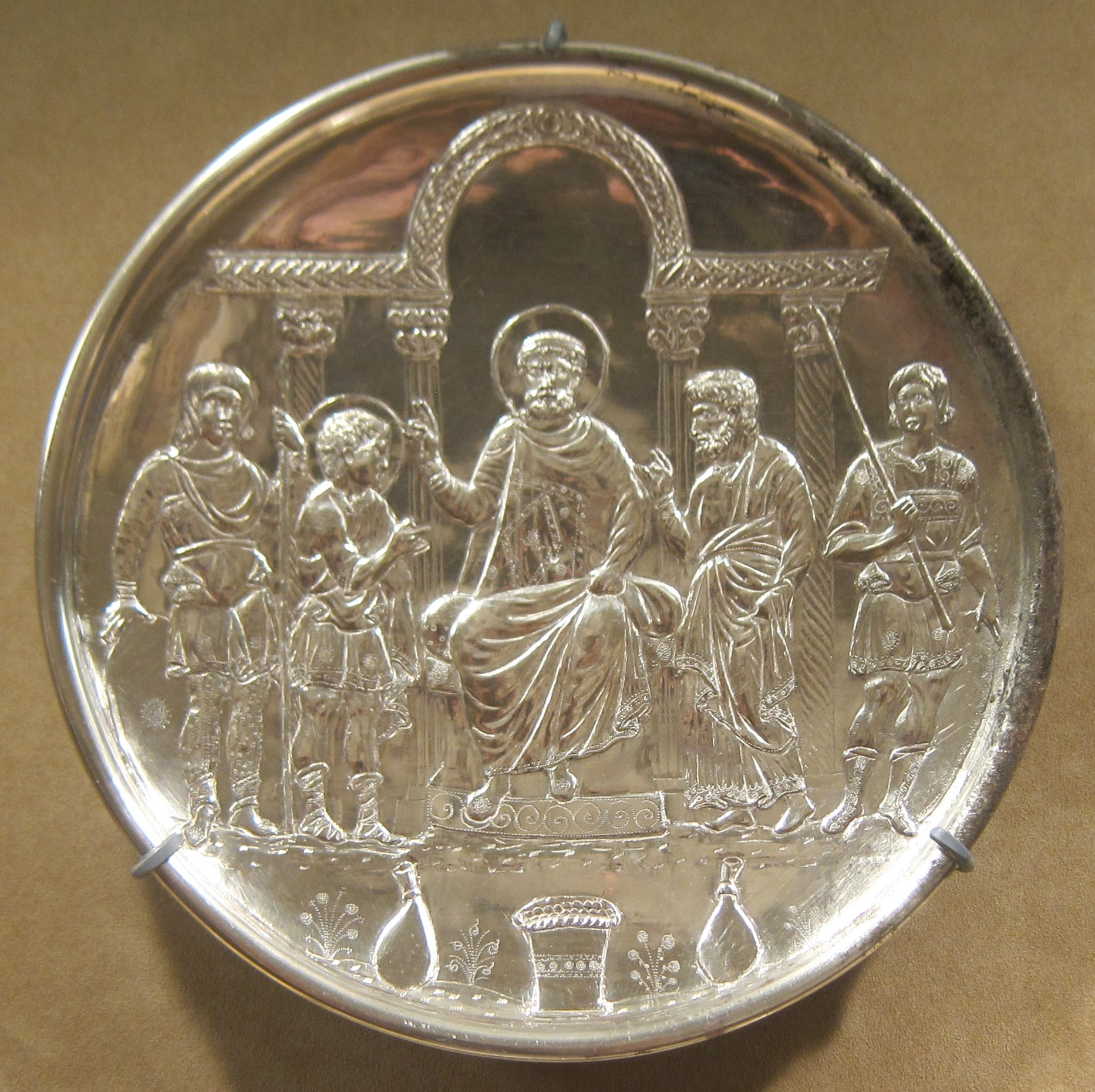 Silver plate with the presentation of David to Saul. One of six silver plates depicting early scenes of the life of David. Constantinople, c. 629-30. Metropolitan Museum of Art, accession 17.190.397